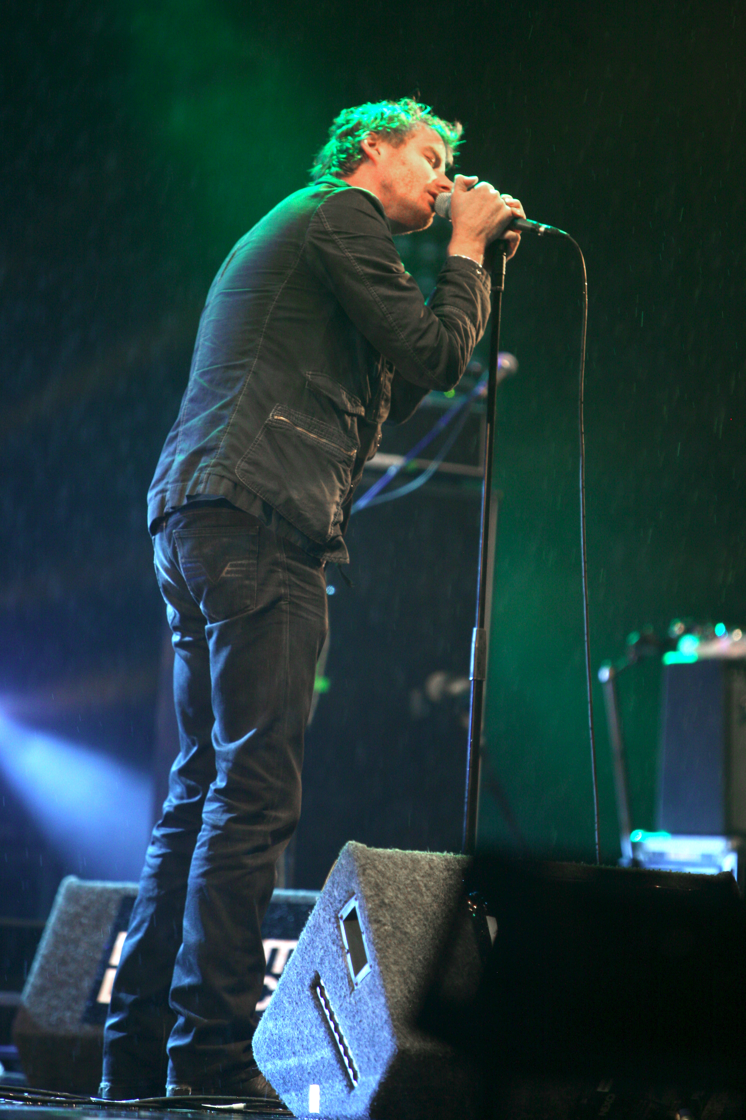 Matt Berninger (The National) at Route du Rock, August 2007